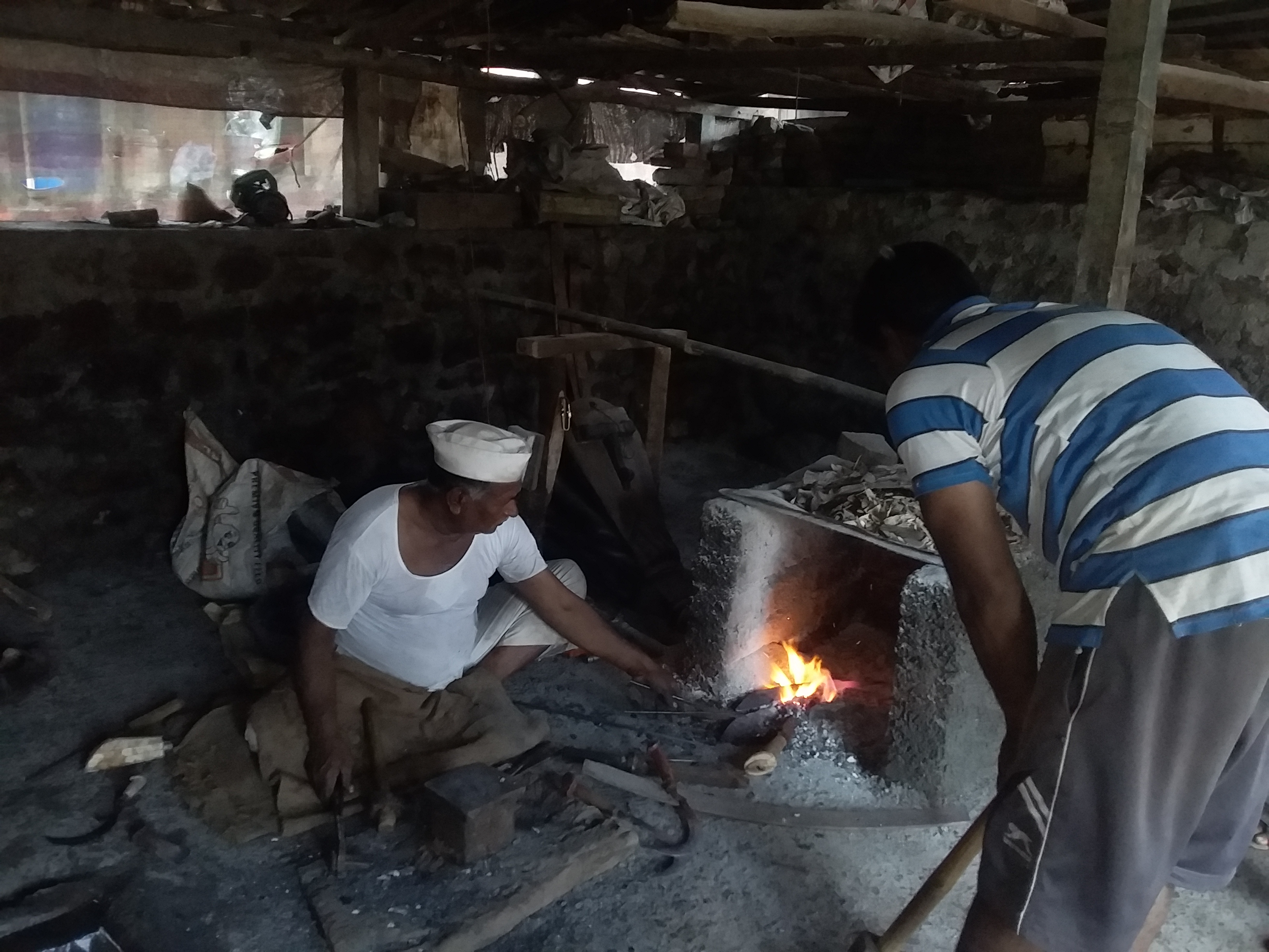 Blacksmith at work in Maharashtra, India